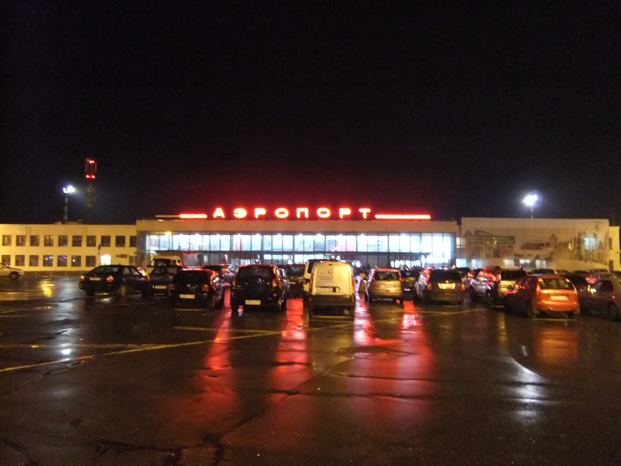 The main (and only) terminal of NIzhny Novogorod International Airport on a rainy night. Seen from the parking lot outside of the terminal (east of the building)